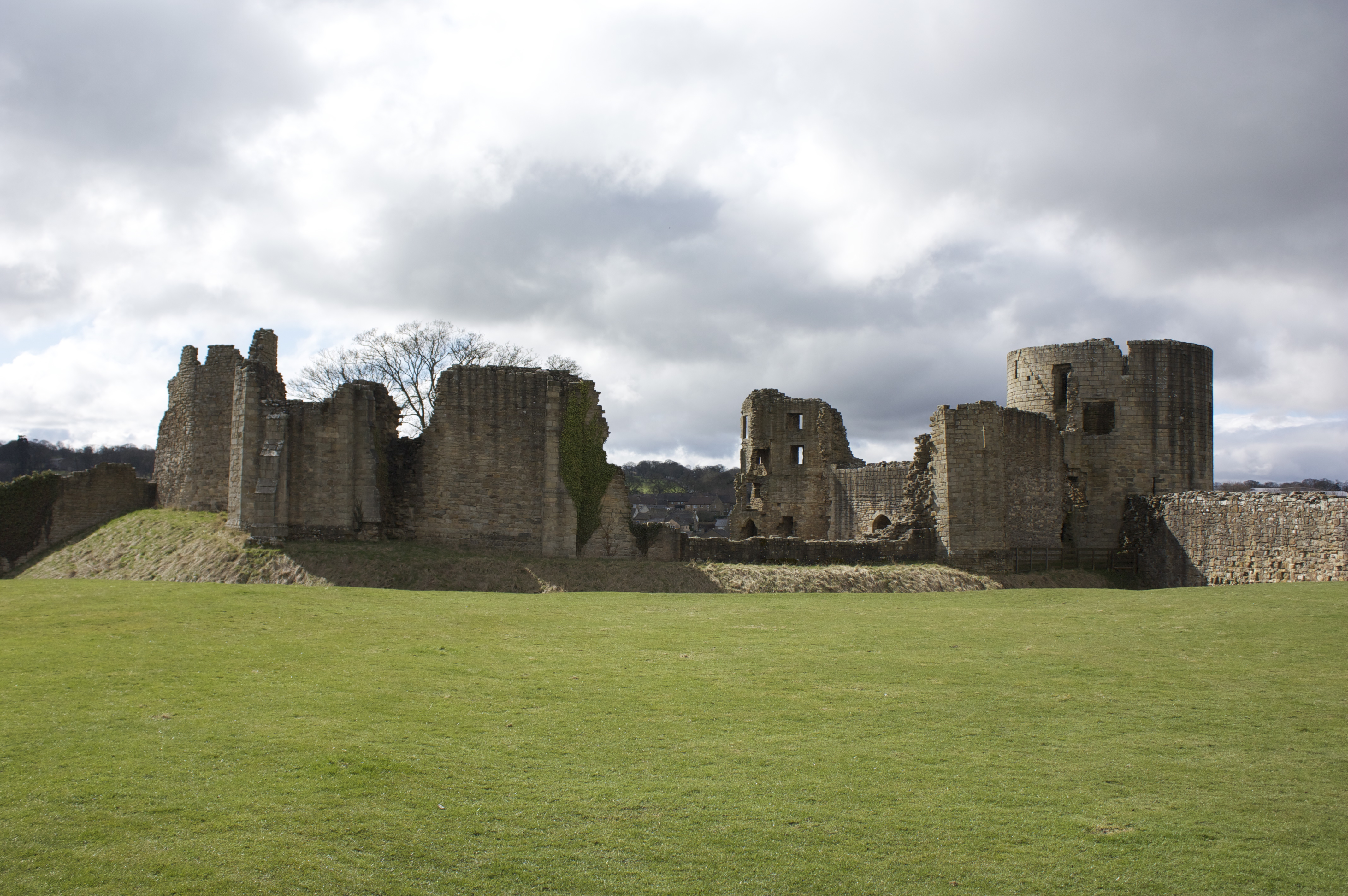 The remains of Barnard Castle